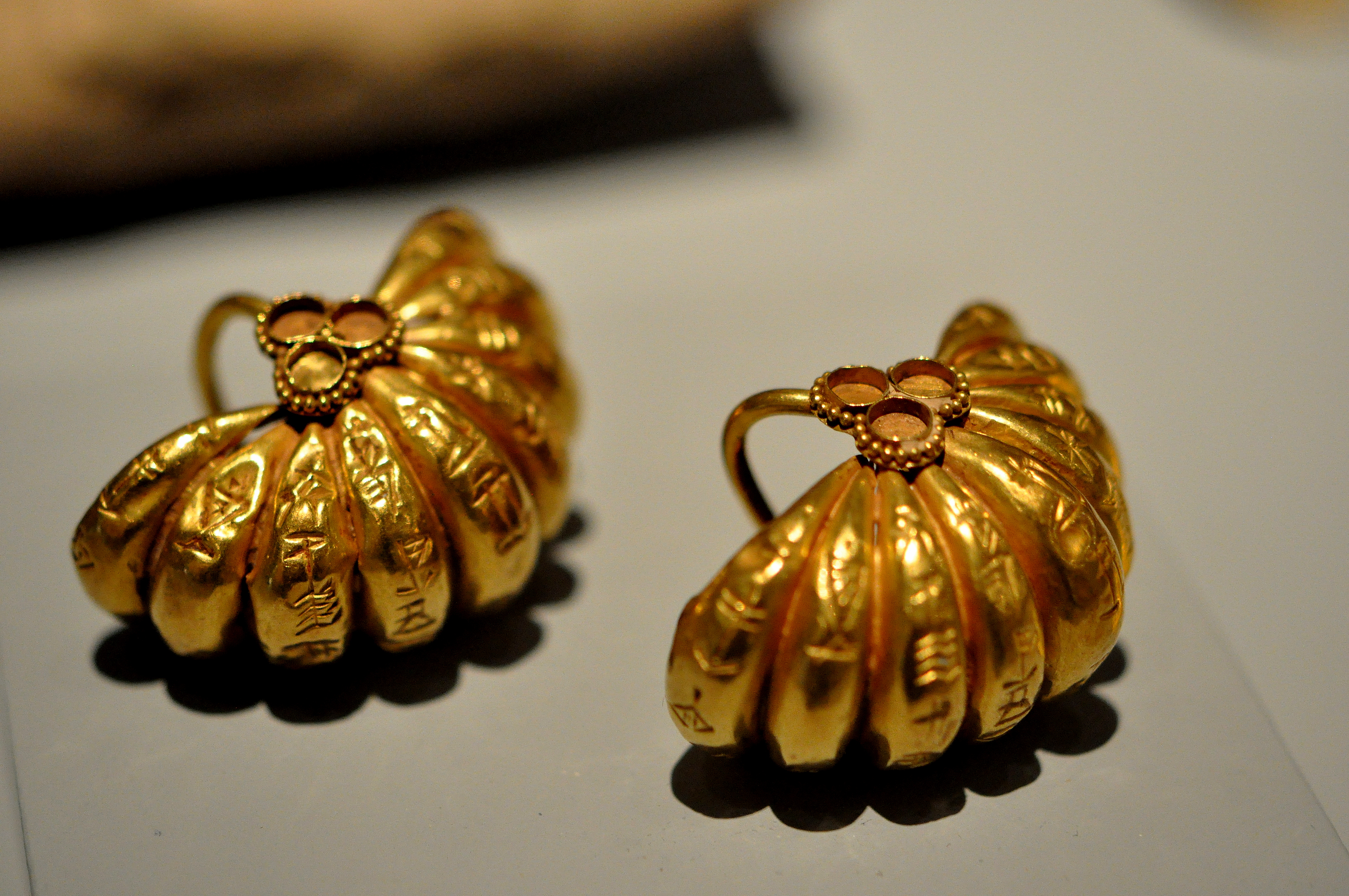 The cuneiform inscriptions on this pair of earrings state that these earrings were a gift from king Shulgi. The Sulaymaniyah Museum, Iraq. A Pair of Golden Earrings from the Time of Shulgi, the second King of Ur III Dynasty (2093-2046 BC)